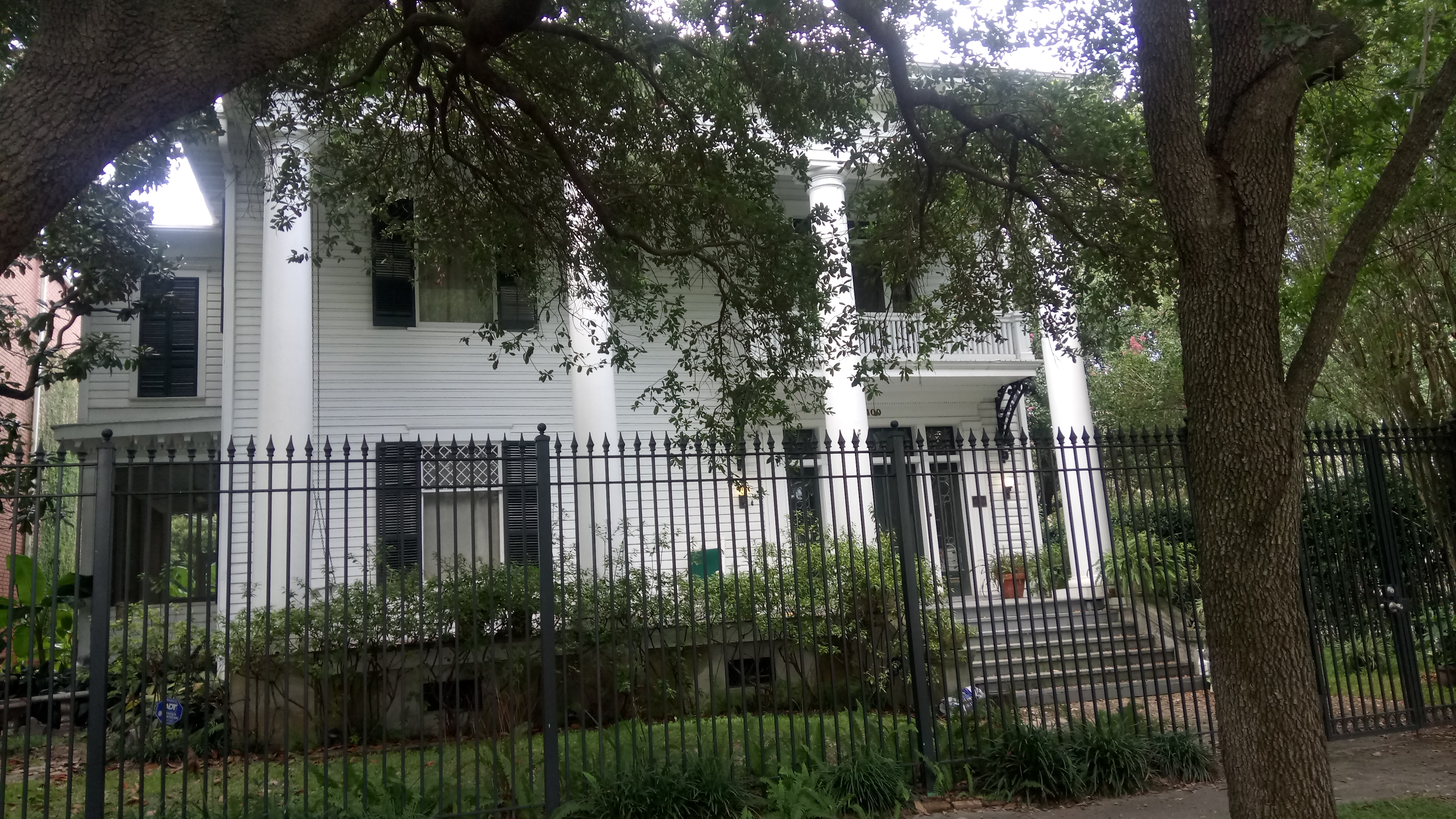 James V. Allred House, 400 Emerson